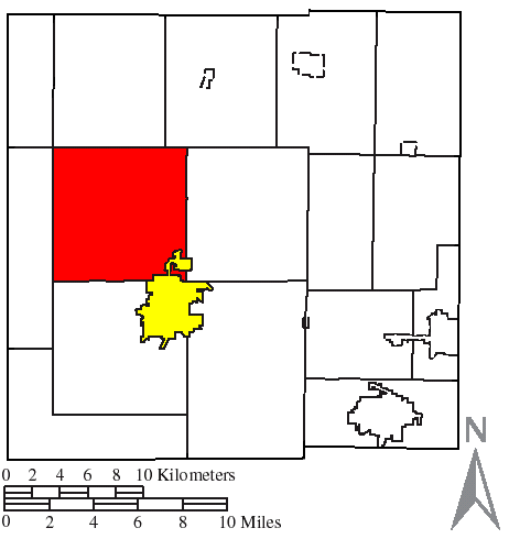 Made by the US Census and modified by myself